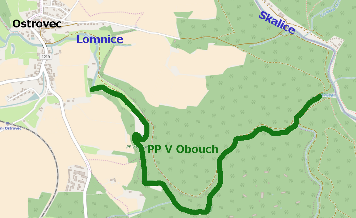 Map of natural monument V Obouch in Písek District, Czech Republic